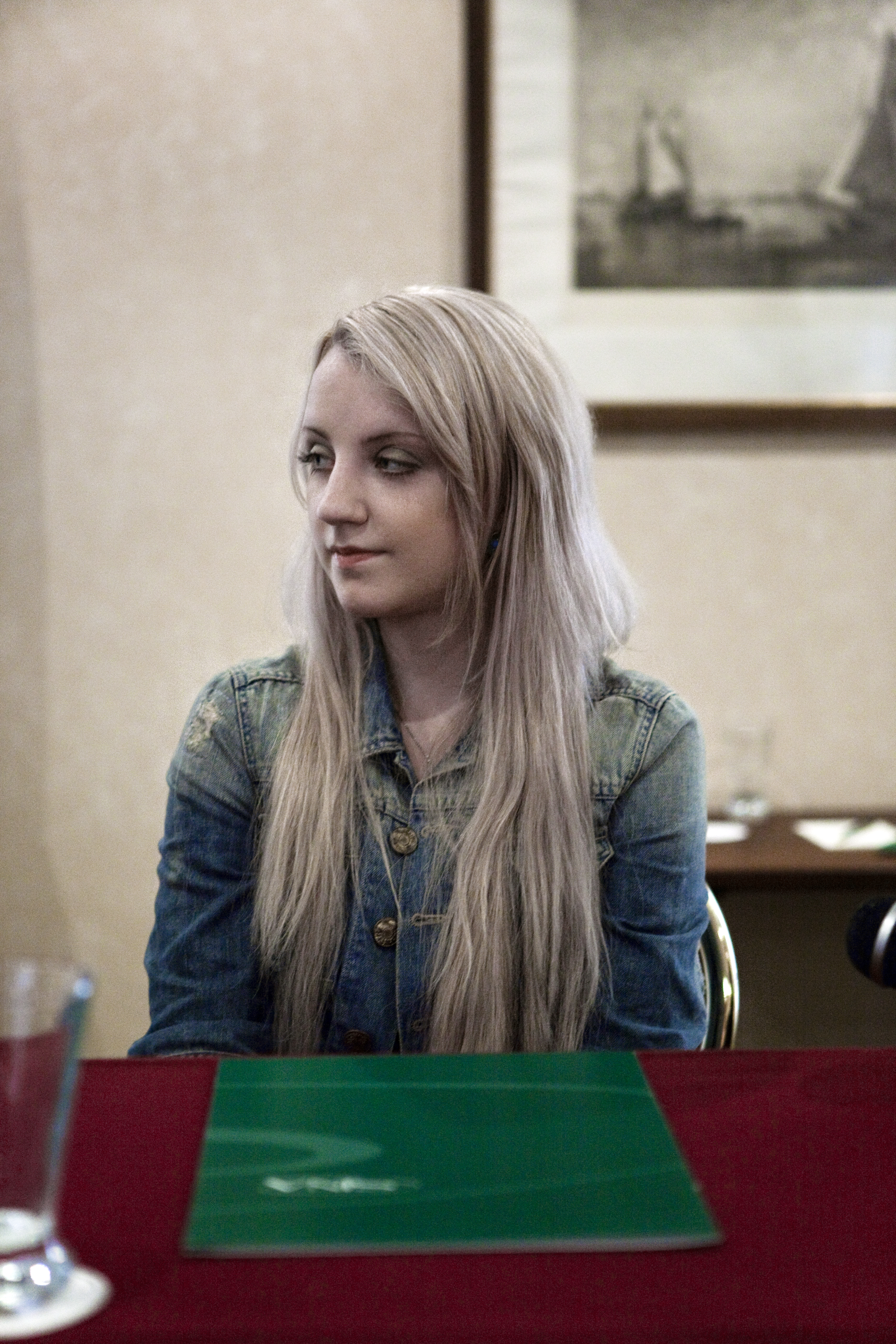 Today I interviewed for my cinema website, three Harry Potter movies actors: Evanna Lynch (Luna Lovegood) and the Phelps Twins (Weasley Twins). Here you can watch the videos!